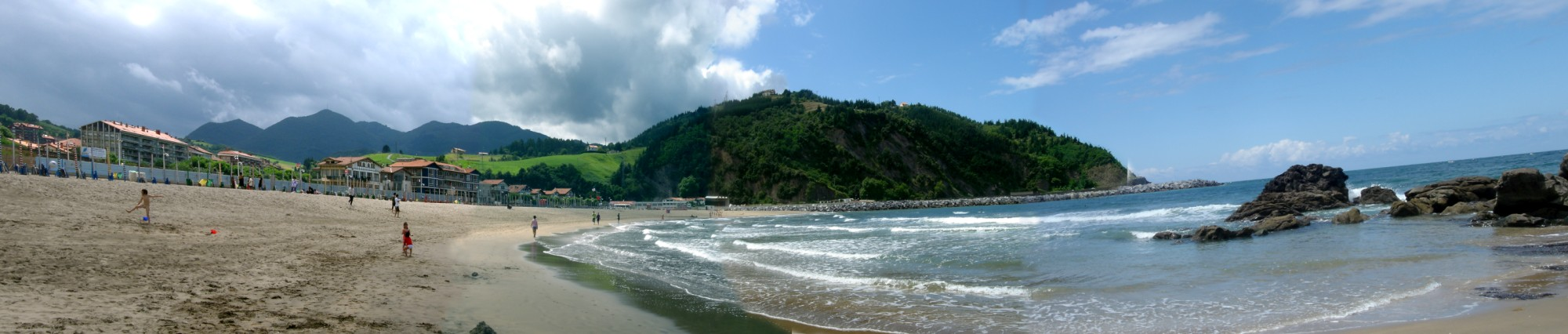 Deba beach (Gipuzkoa, Basque Country)